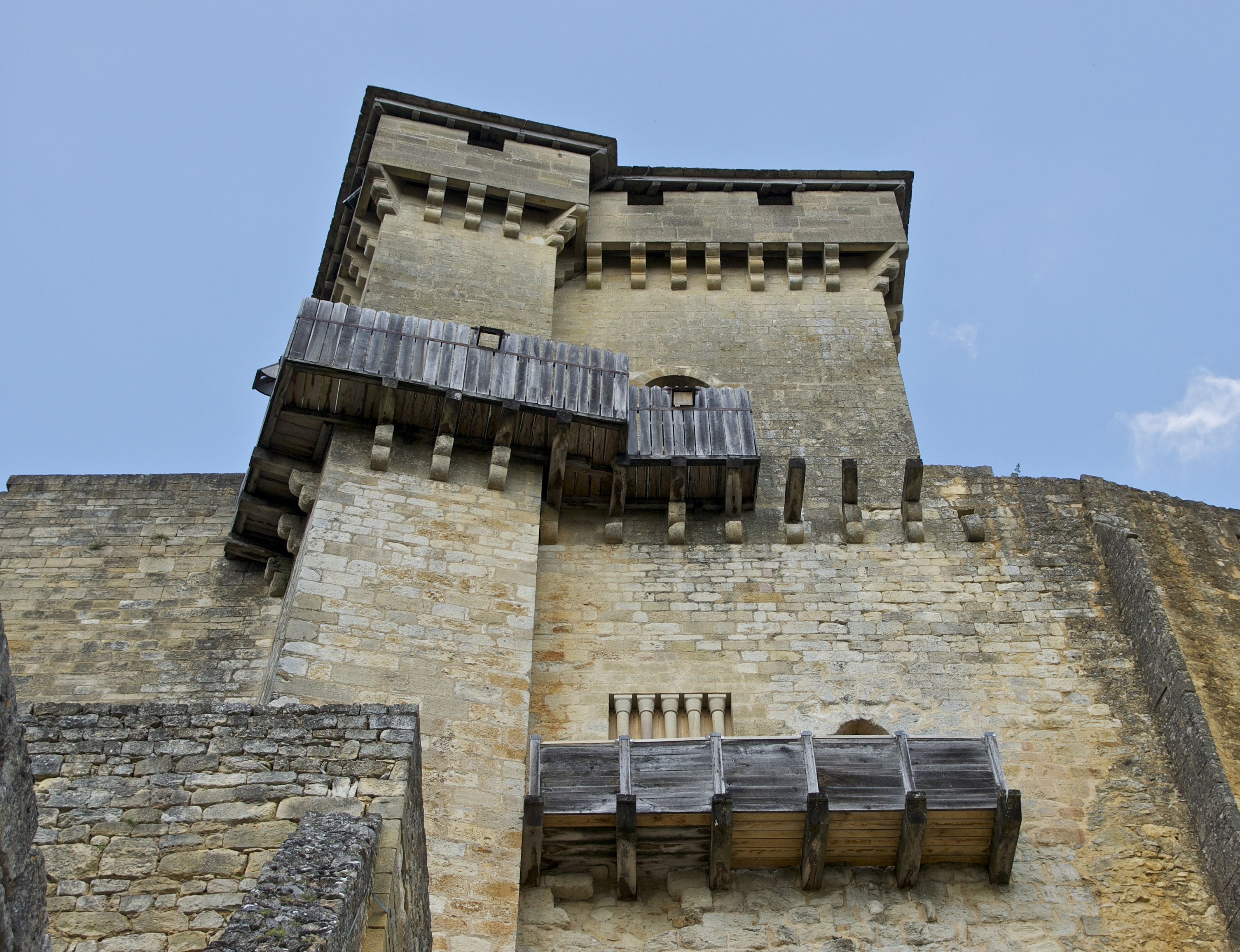 Reconstructed wooden Hoardings in Château de Castelnaud, Dordogne, France.